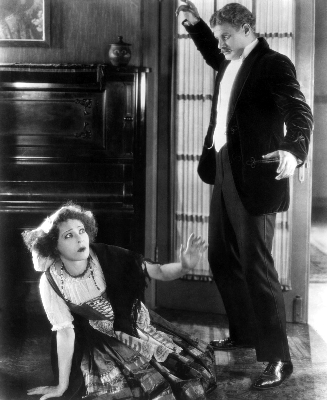 Alla Nazimova and Alan Hale, Sr. in a photo from the 1922 film A Doll's House.